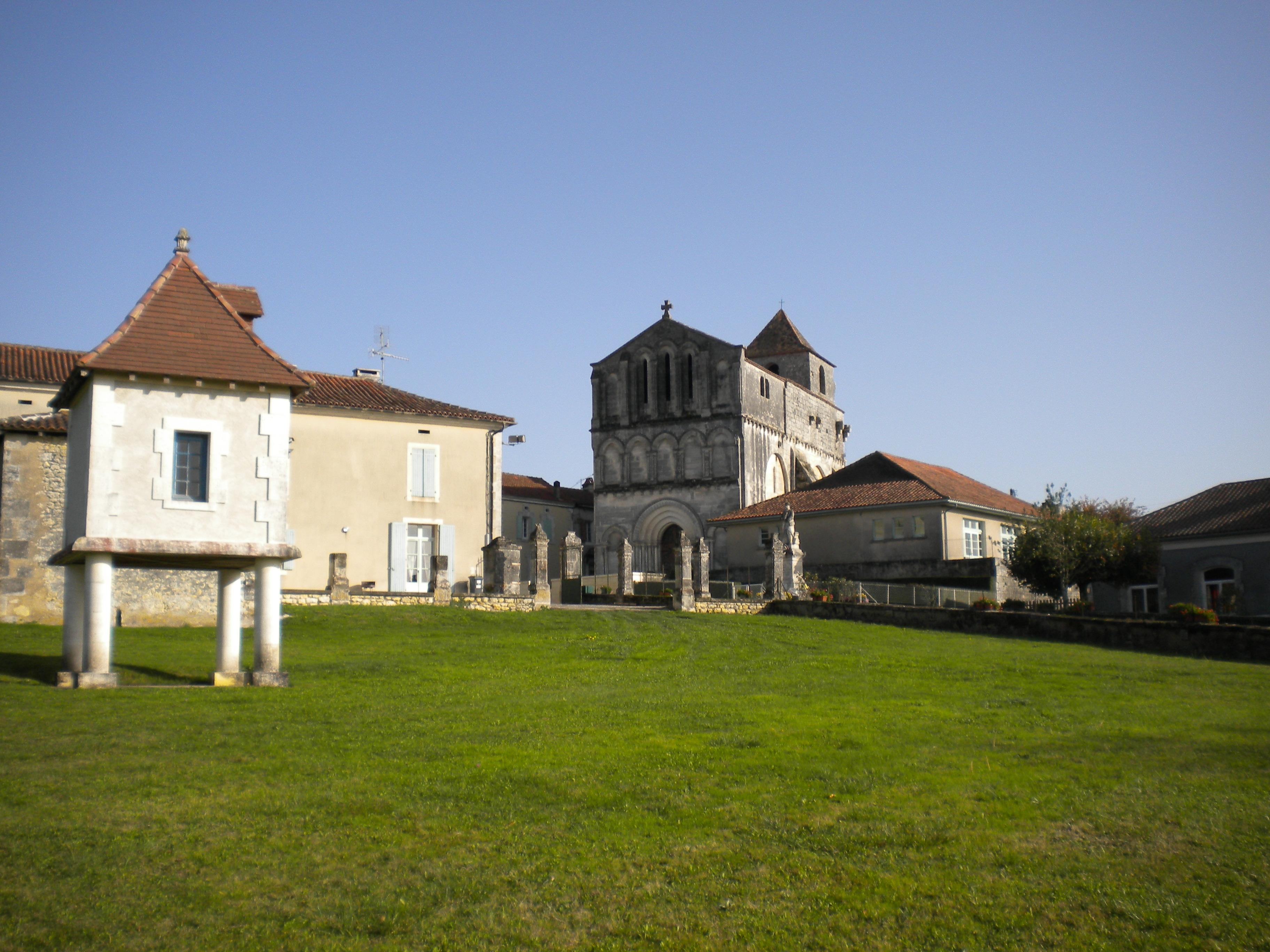 The village center of Léguillac-de-Cercles with its romanesque church. Northwestern Dordogne, France.